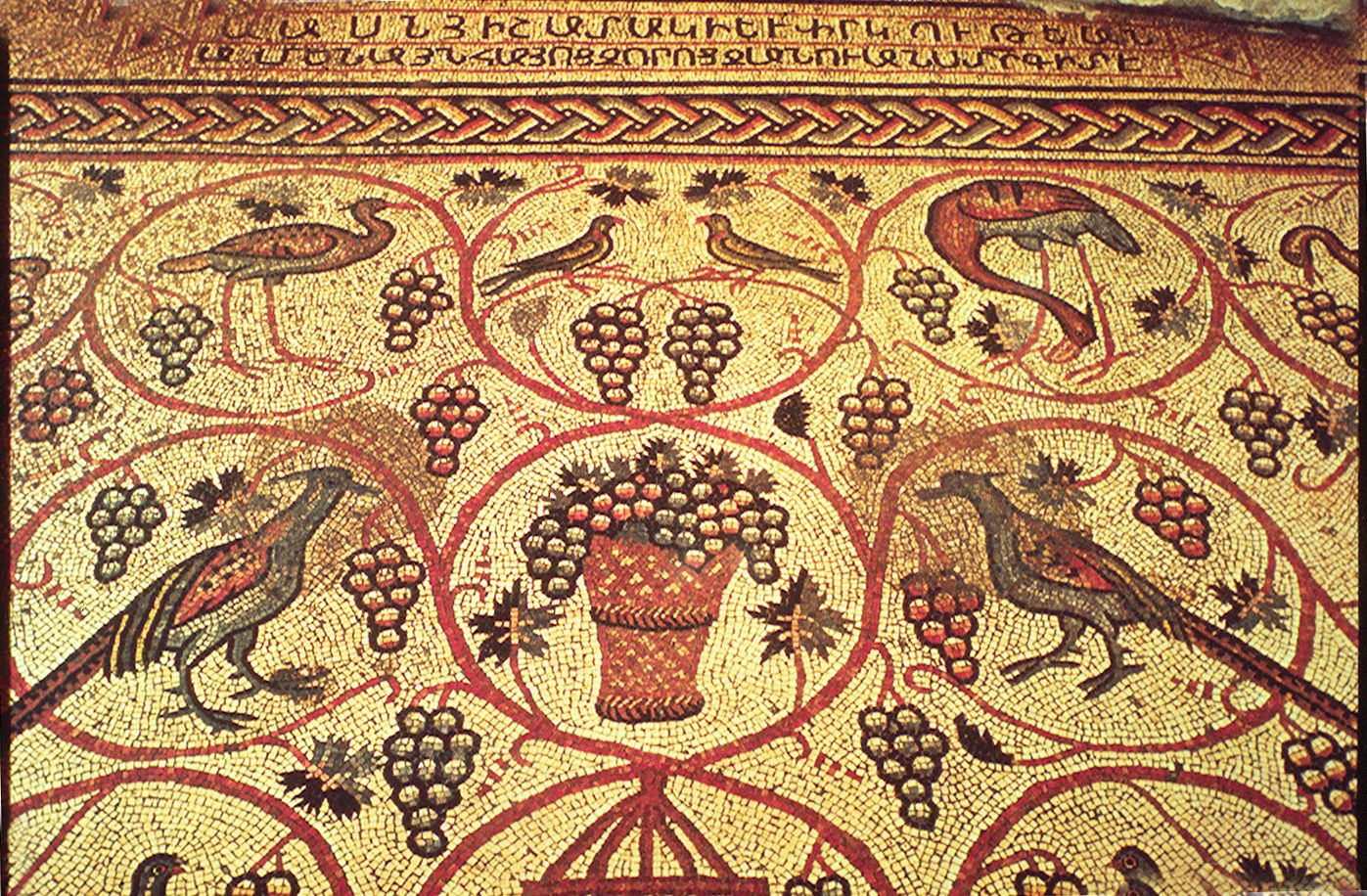 Mosaic with Armenian inscription, birds within a vine scroll, VI century, funerary chapel of St. Polyeuctos, Musara Quarter, Damascus Gate, Jerusalem. This floor was discovered in the year 1894 during building activities being carried out in the Musrara district, north of the Damascus Gate. A detailed description of the discovery was made by the Englishman, Bliss (Bliss 1898: 253-259).